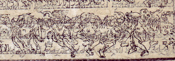 Group of five Tibetan sa-bdag. From an old blockprint of the Vaidurya dkar-po (1685)